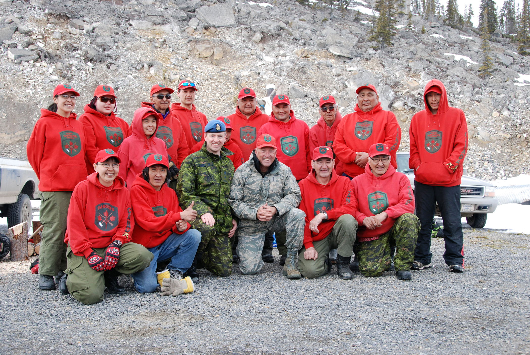 Gen. Gene Renuart, NORAD and U.S. Northern Command commander, and Canadian Brig. Gen. David Millar, Joint Task Force North commander, pose with members of the Canadian Ranger Patrol Inuvik at the Mackenzie River Delta near Inuvik, Northwest Territories during the general's May 11 visit to Forward Operating Locations Yellowknife and Inuvik. Canadian Rangers are part-time reservists providing a military presence in remote, isolated and coastal communities. Formally established in 1947, Canadian Rangers are responsible for protecting Canada's sovereignty by reporting unusual activities or sightings, collecting local data of significance to the Canadian Forces, and conducting surveillance or sovereignty patrols as required. There are currently 4,200 Canadian Rangers in 165 communities across Canada.